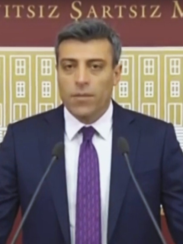 Turkish politician and diplomat Öztürk Yılmaz